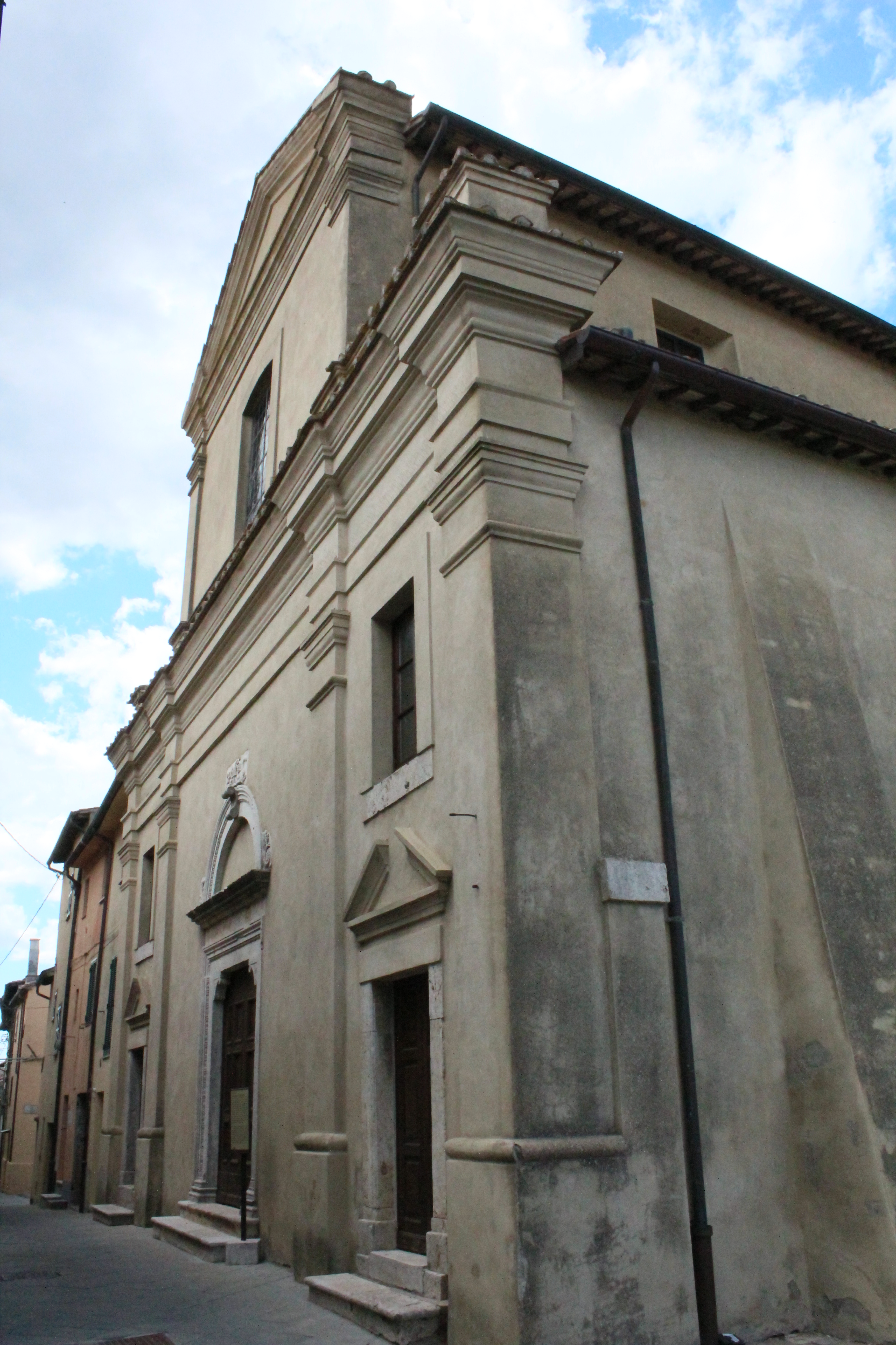 Church of San Paolo Converso in Celle sul Rigo, hamlet of San Casciano dei Bagni, Province of Siena, Tuscany, Italy